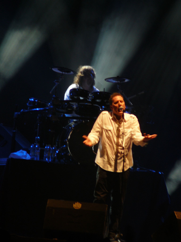 Lead singer for the band Orchestral Manoeuvres in the Dark (OMD). Live show at Summercase Festival 2007, Madrid.